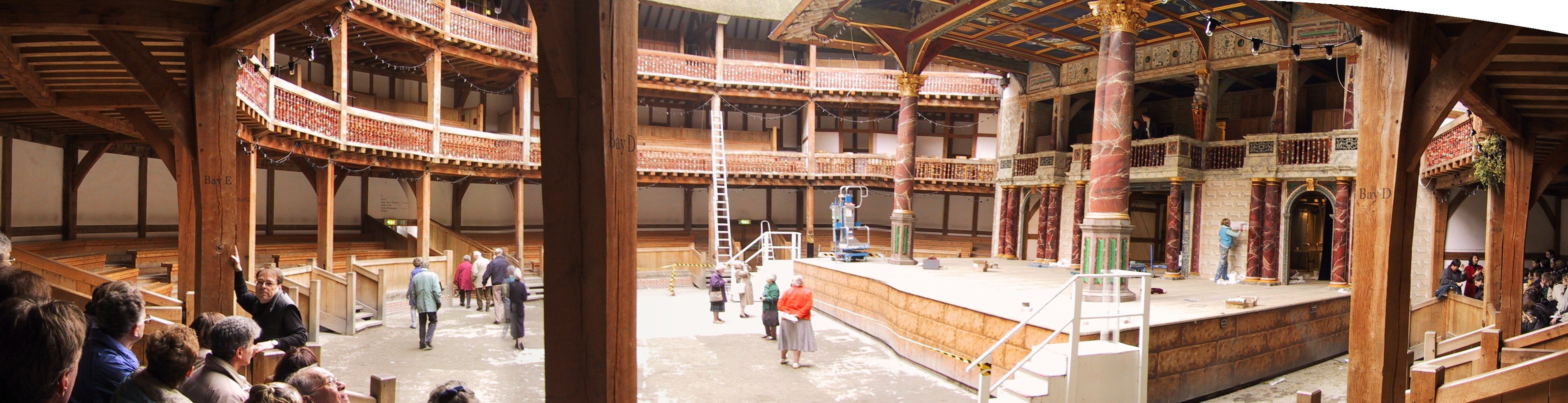 Beschreibung / Summary Panorama vom Innenraum des Nachbaus des Shakespeare Globe Theaters in London Indoor Panorama from the Shakespeare's Globe Theater in London Date: April 2001, London, England Author: Maschinenjunge Licence: cc-by-sa-2.5